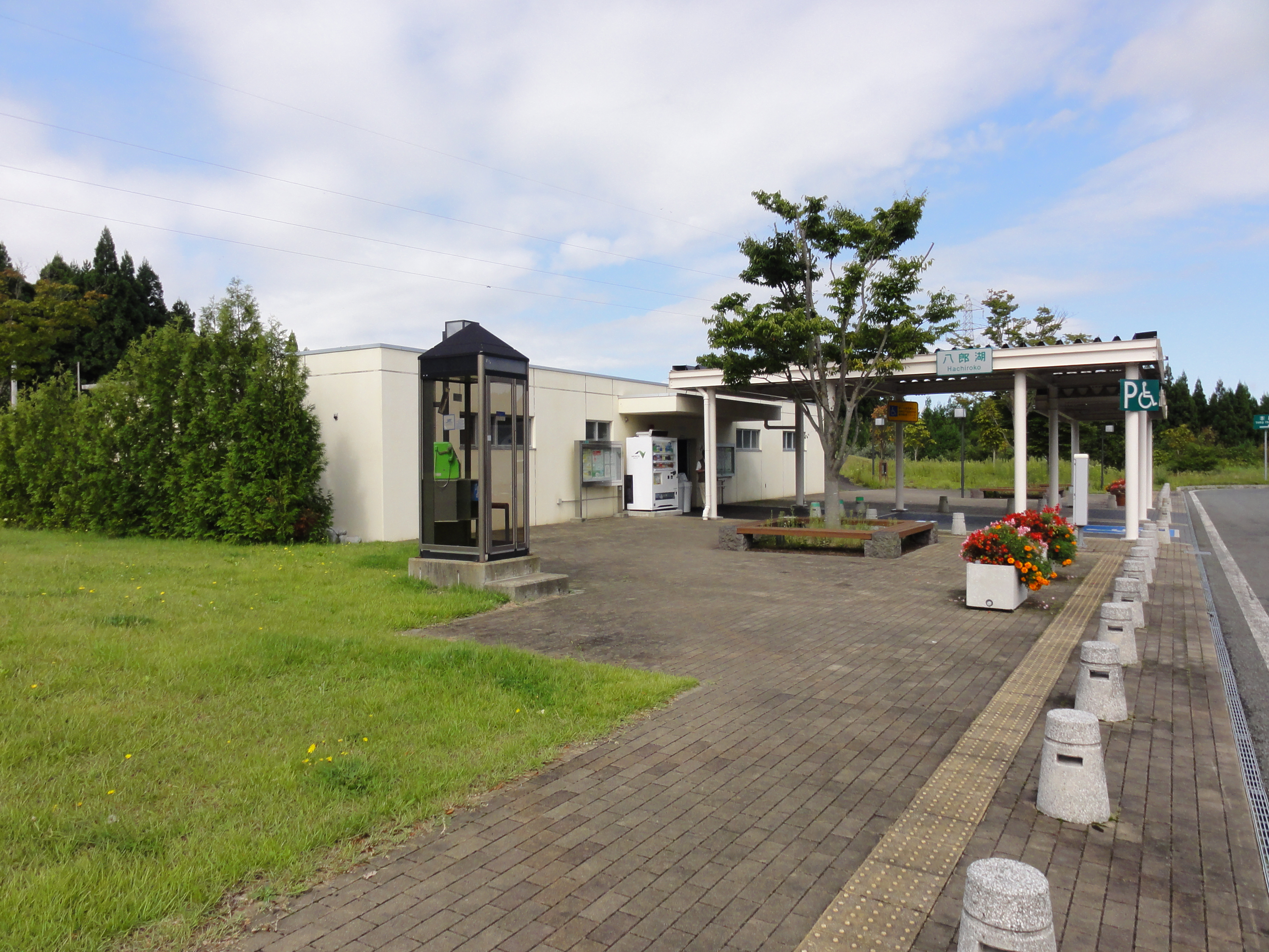 Hachirōko Service Area,Akita Pref., Japan